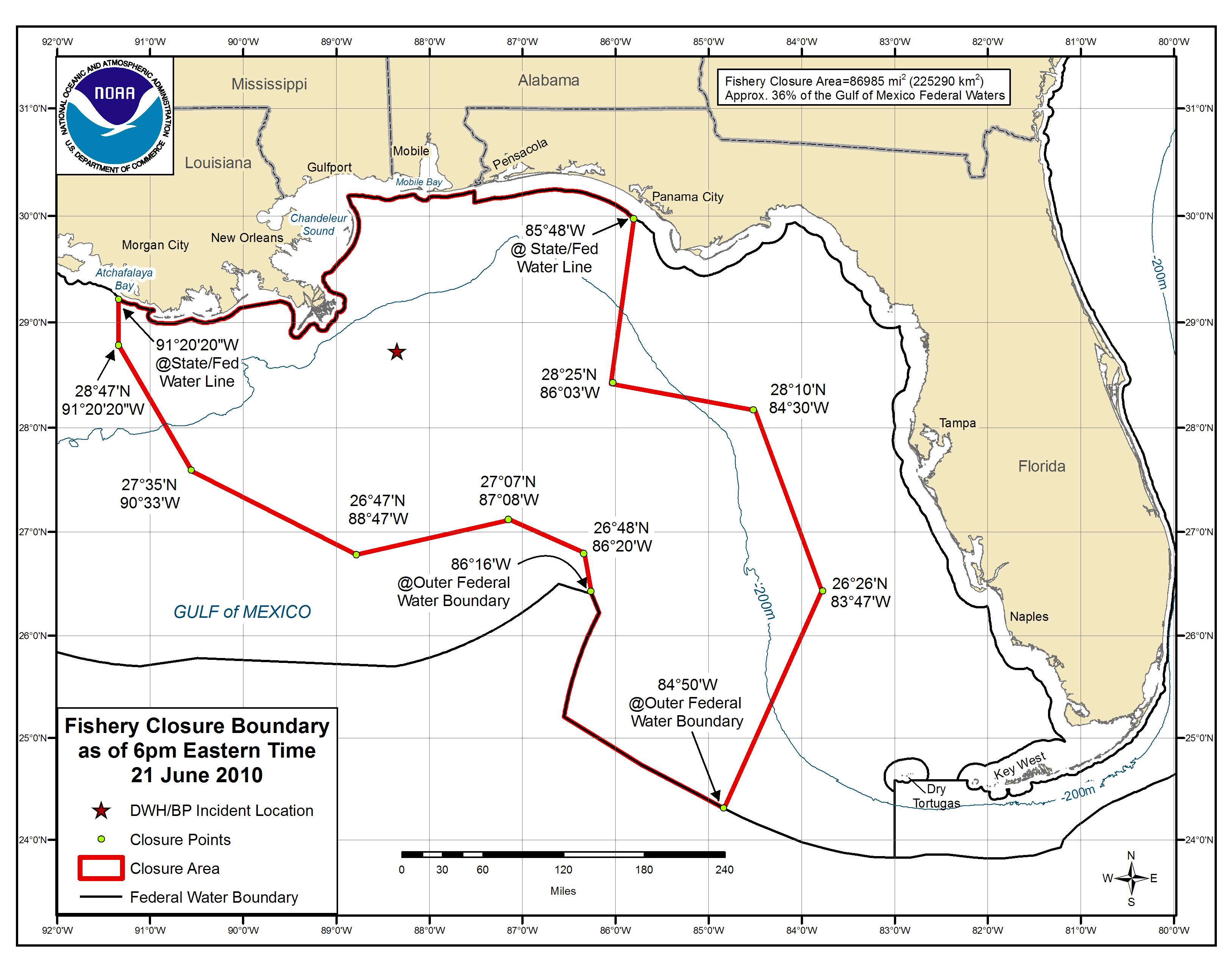 Map entitled "Fishery Closure Boundary as of 6pm Eastern Time 21 June 2010" due to the Deepwater Horizon oil spill, extending from Atchafalaya Bay, Louisiana to Panama City, Florida